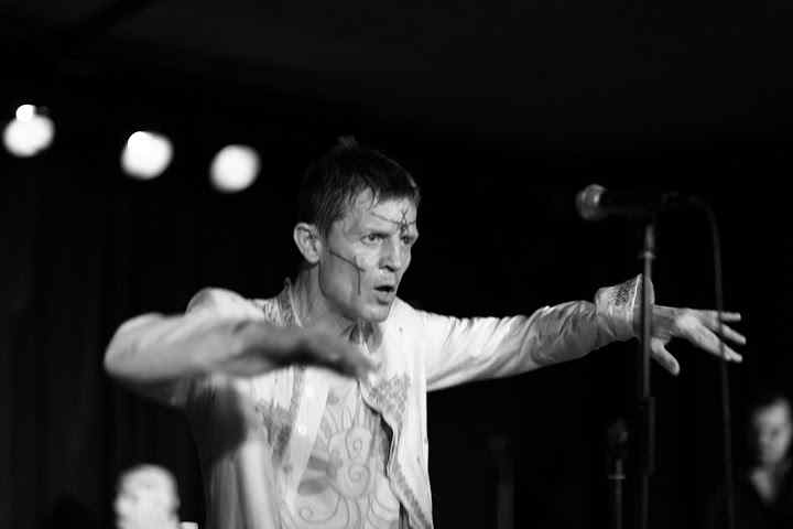 Attila Grandpierre on a concert in 2011.